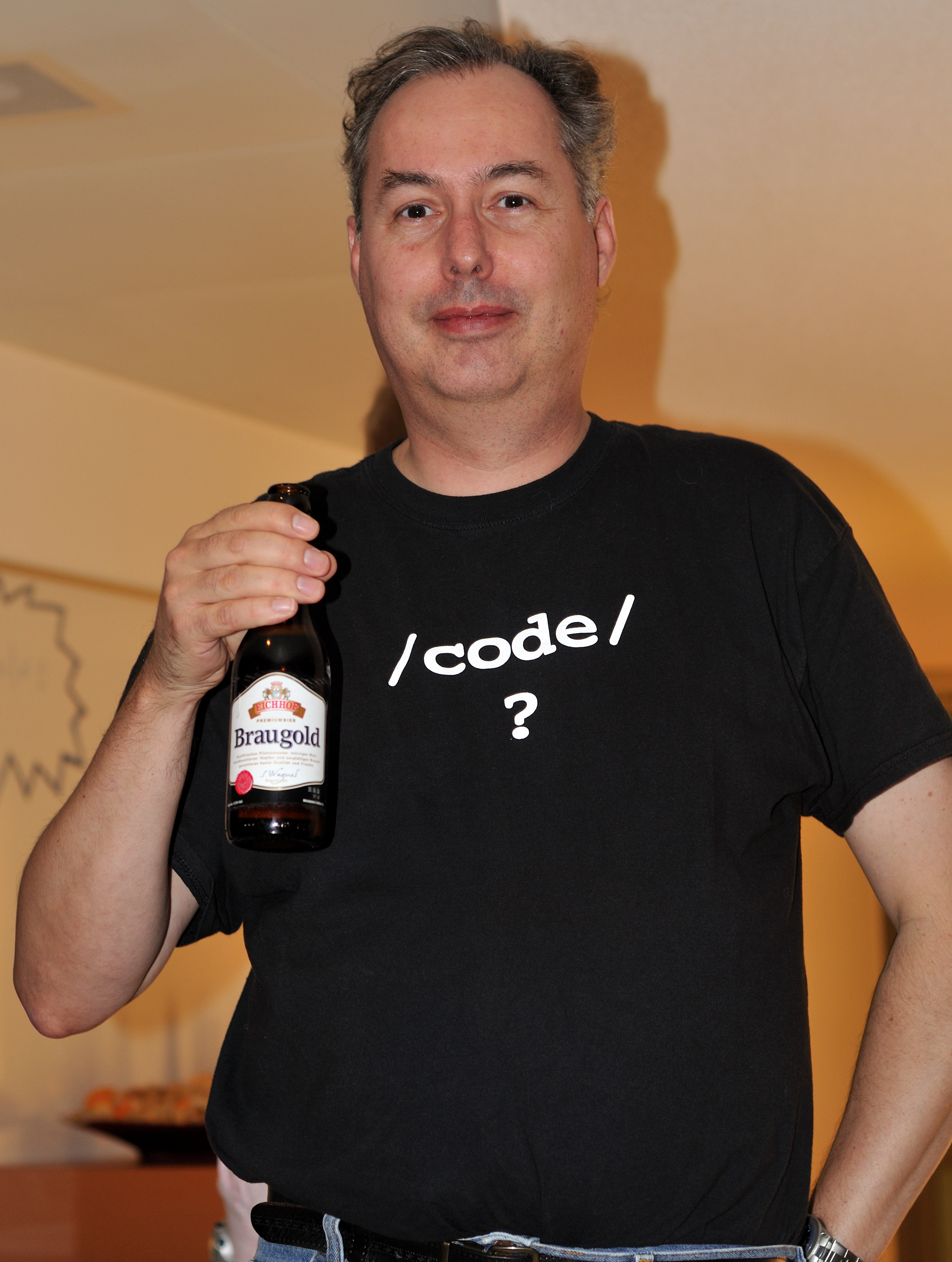 Bram Moolenaar, the author of vim, a text editor which is very popular among programmers and users of Free Software.